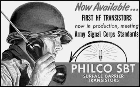 This is a scanned page of my 1955 Philco material advertisement. This scanned image is for the educational purposes only, and for the history of Philco. Philco is no longer in business and was sold out to Ford in 1961 and Ford sold its ownership of Philco in 1974. The copyright on this Philco advertisement was not renewed and it is in the public domain.